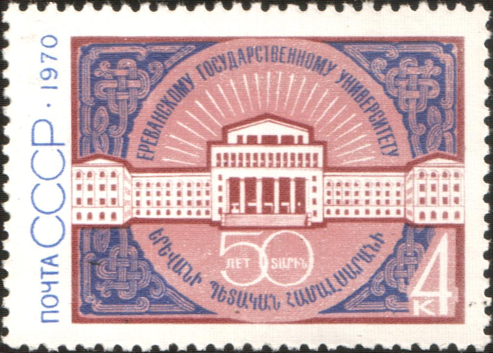 USSR stamp: University Building and National Ornament. Series: 50th Anniversary of Yerevan State University